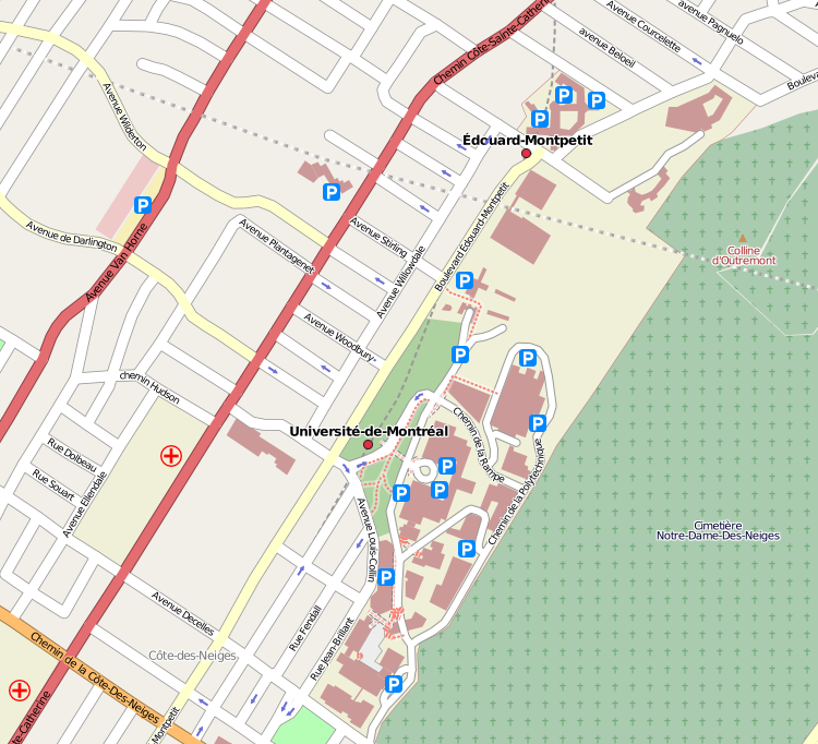 This map may be incomplete, and may contain errors. Don't rely solely on it for navigation.